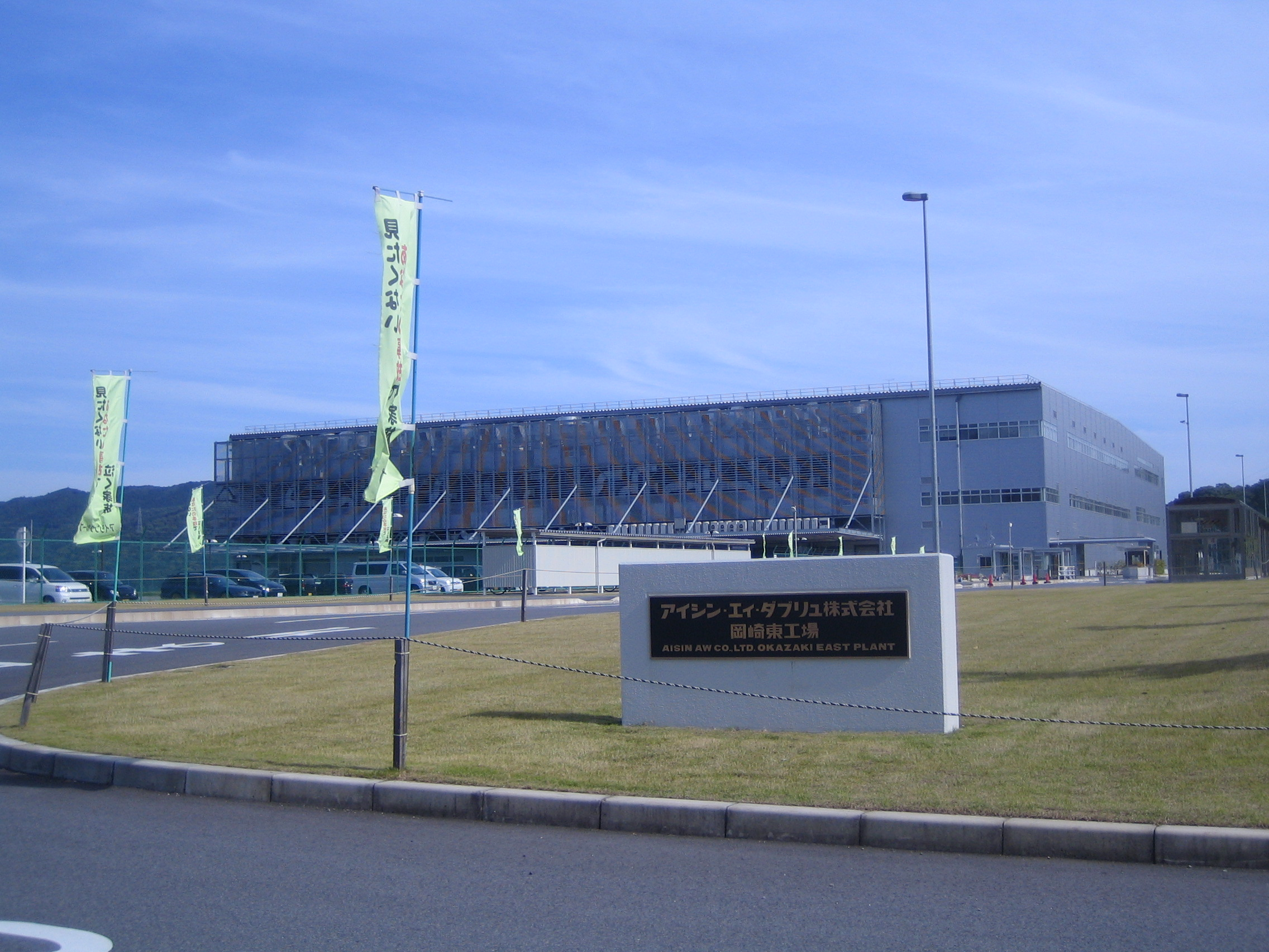 Aisin AW Co., Ltd. Okazaki East Plant (アイシン・エィ・ダブリュ株式会社岡崎東工場), located in Okazaki, Aichi, Japan